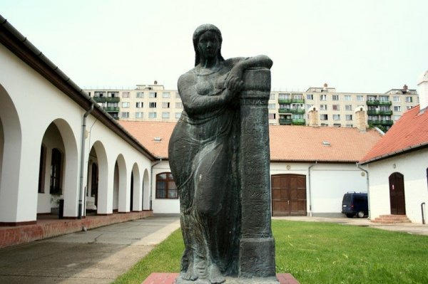 Standing woman in Debrecen